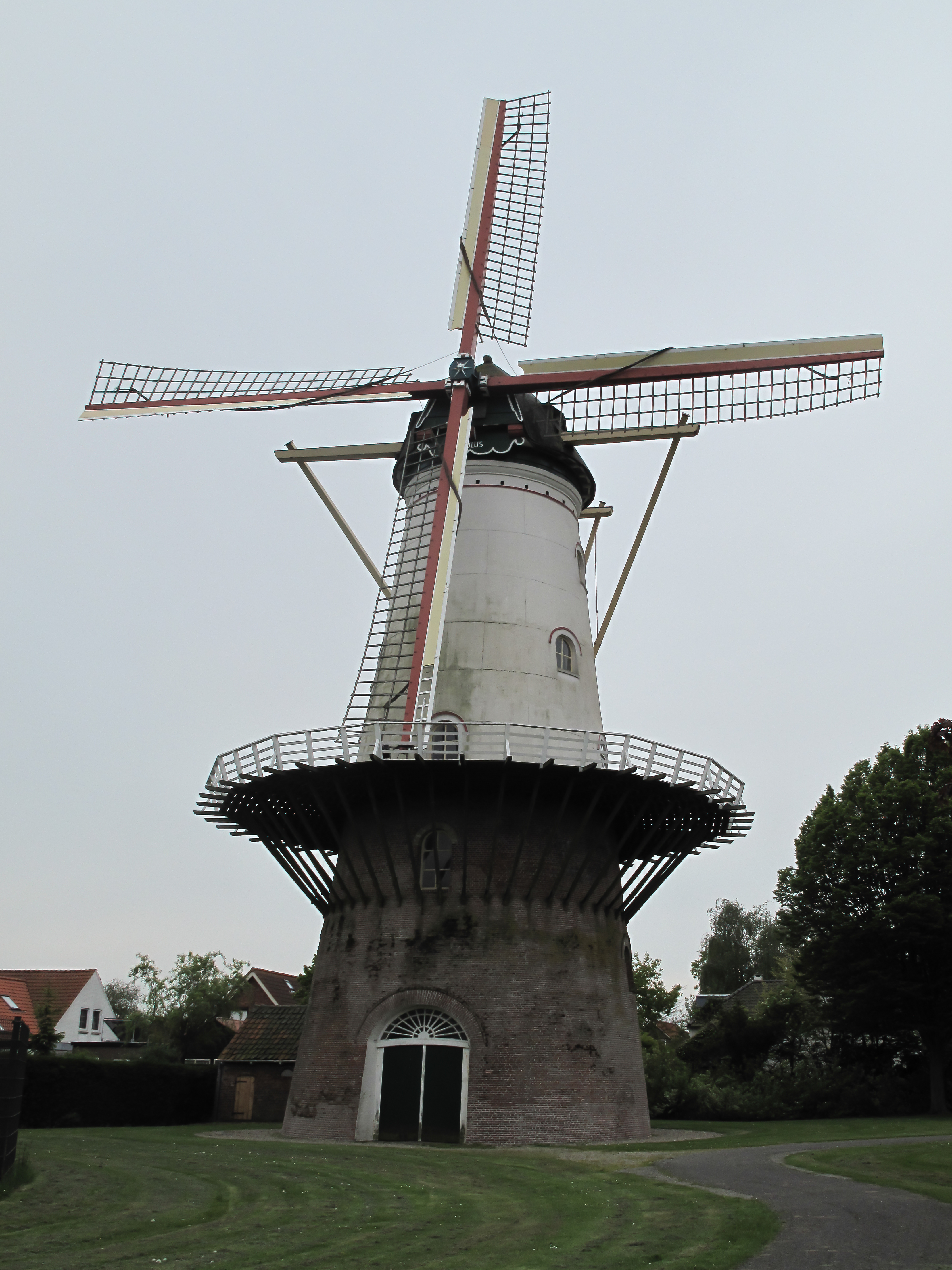 Wemeldinge, windmill: molen Aeolus